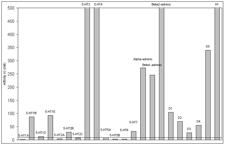 VERY IMPORTANT TO NOTE WHEN VIEWING THIS GRAPH: Ki Values are reported in such a way that the lower the number is, the higher affinity the structure has for the receptor. This means that the LOW values on the graph are the relevant information NOT the taller bars. I created this file from public source data ( The black horizontal line represents the plasma level of LSD in humans during recreational use (Aghajanian & Bing, (1964) Clin. Pharmacol. Ther. 5, 611-614) and hence receptors which LSD has an affinity for above the line are unlikely to be affected by recreational LSD doses.